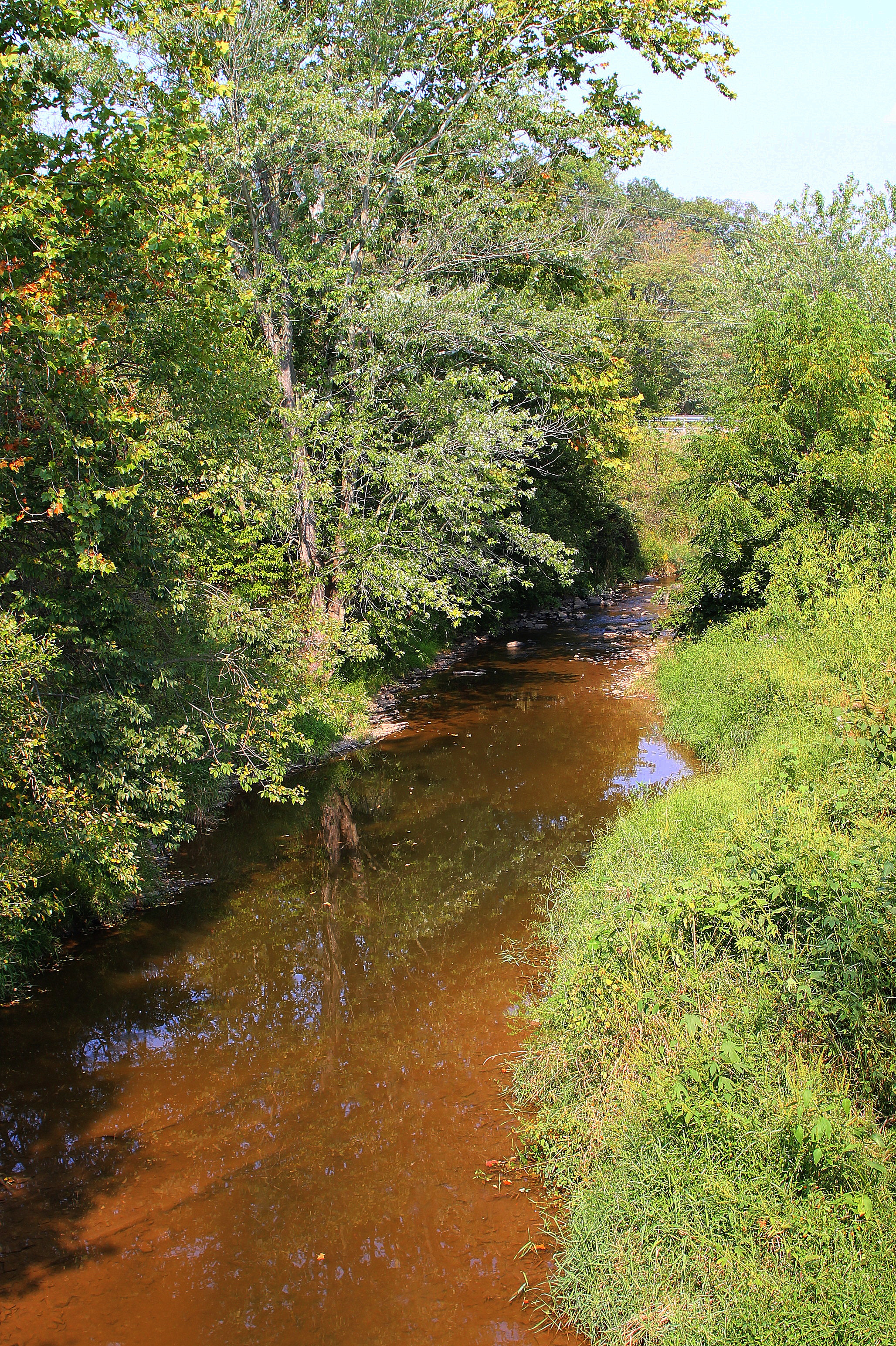 Schwaben Creek looking upstream in September 2015